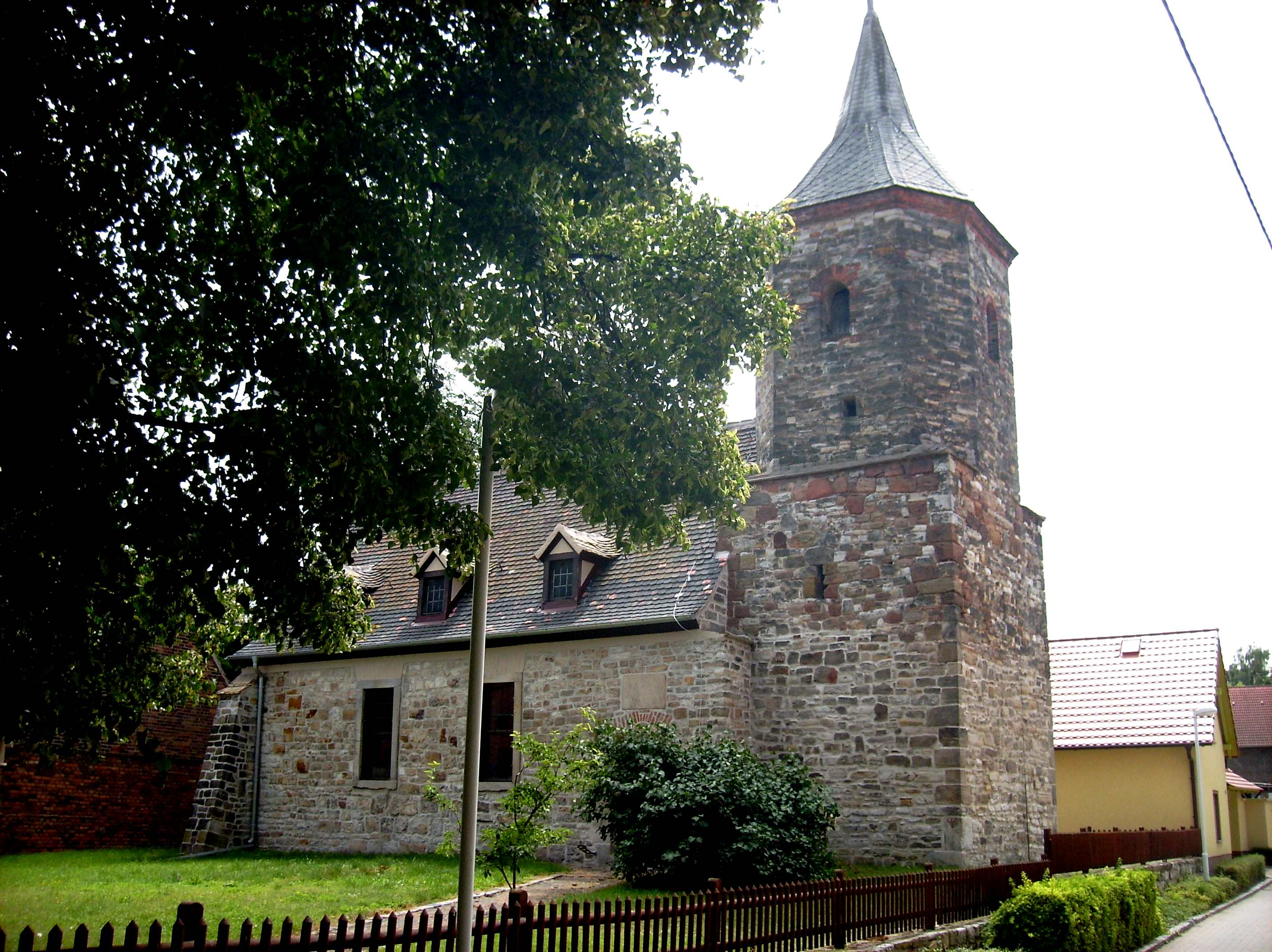 Posendorf church in Reichardtswerben (Weissenfels, district of Burgenlandkreis, Saxony-Anhalt)